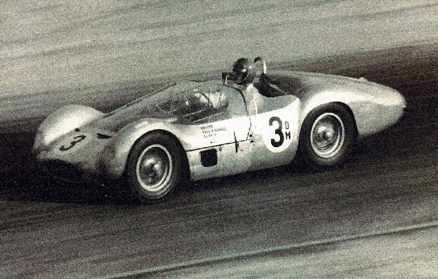 Fred Gamble - 1961 U.S. National Championship 3rd in a Type 61 Maserati. Location and time may be either Bridgehampton on May 28 or Meadowdale on July 23, both being SCCA National Sportscar Championship events where Gamble entered Maserati Tipo 61 "longtail" s/n 2451 as entry #3 (as in the picture).[1]